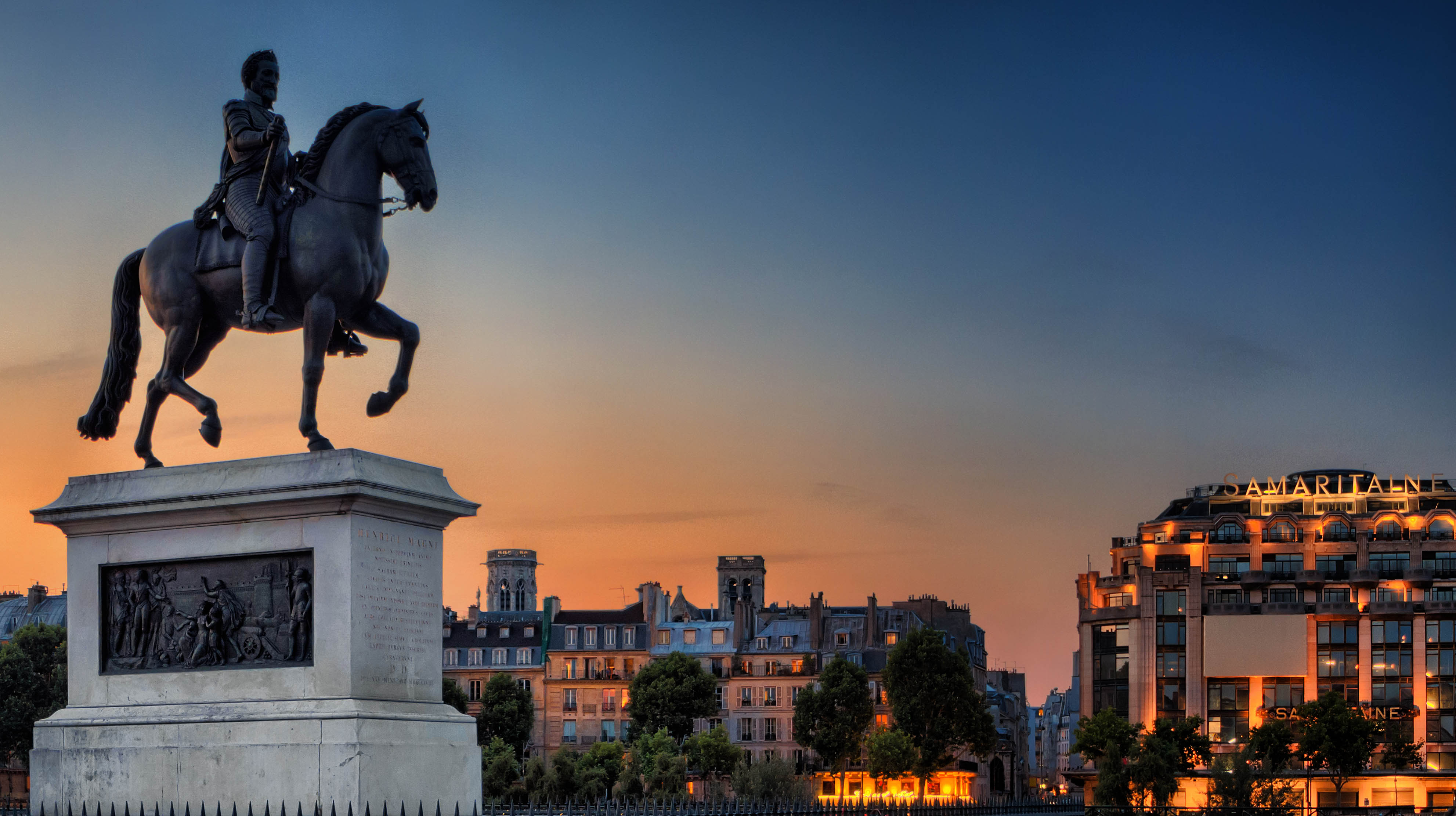 Equestrian statue of Henry IV, Pont Neuf, Paris. The former Samaritaine department store is on the right.